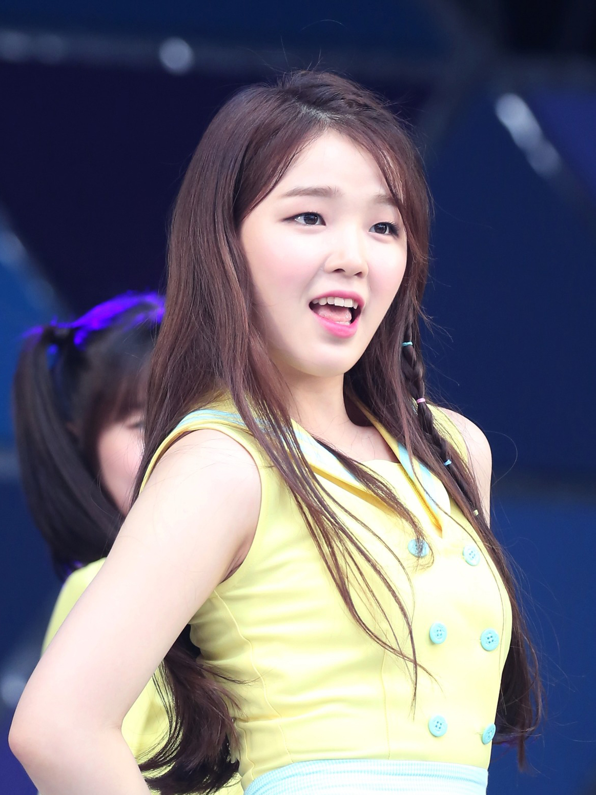 Oh My Girl Seunghee at Seoul Market Festival on September 7, 2016